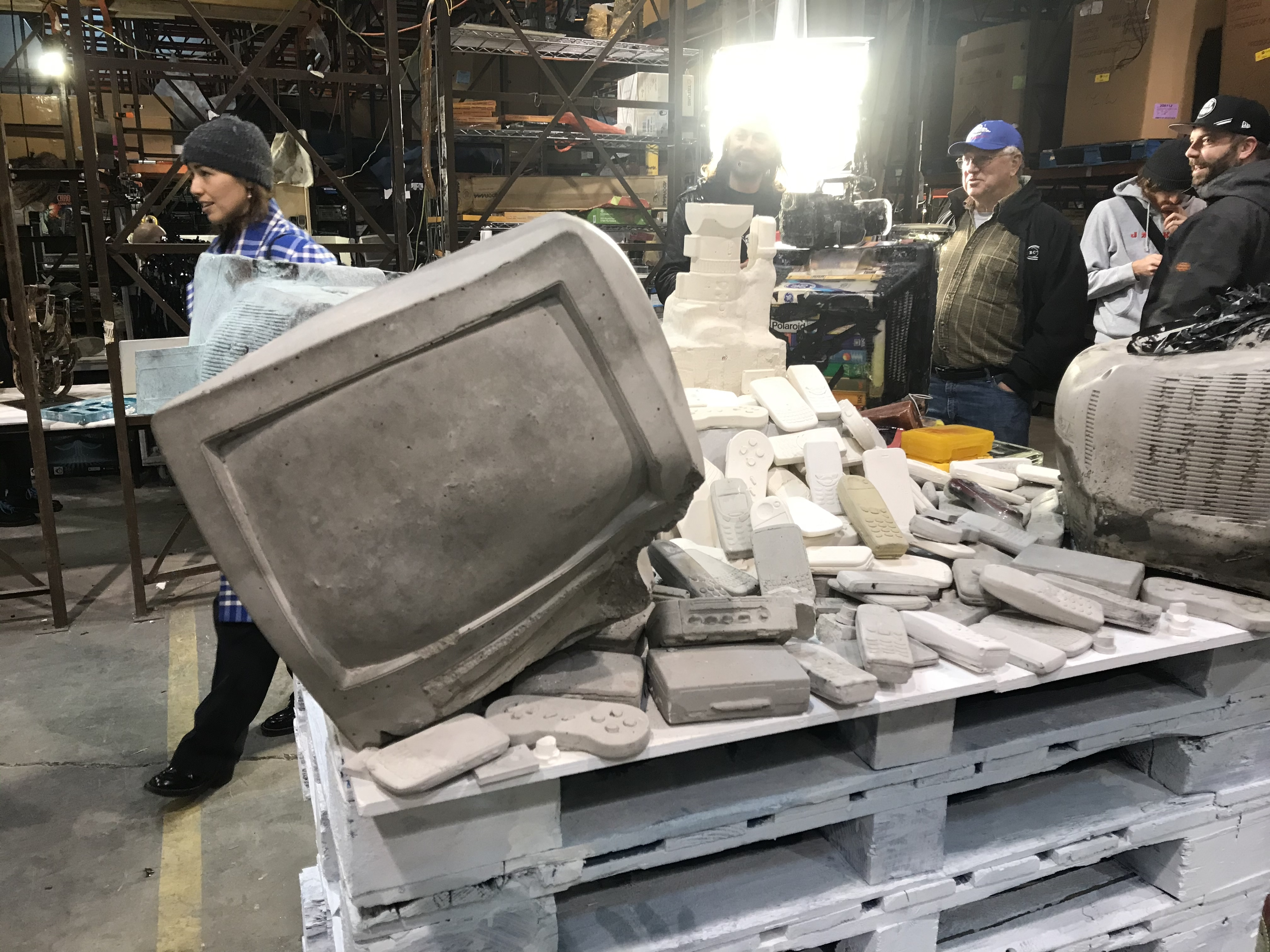 Louis Sarowsky sculpture at the Gowanus E-Waste recycling center